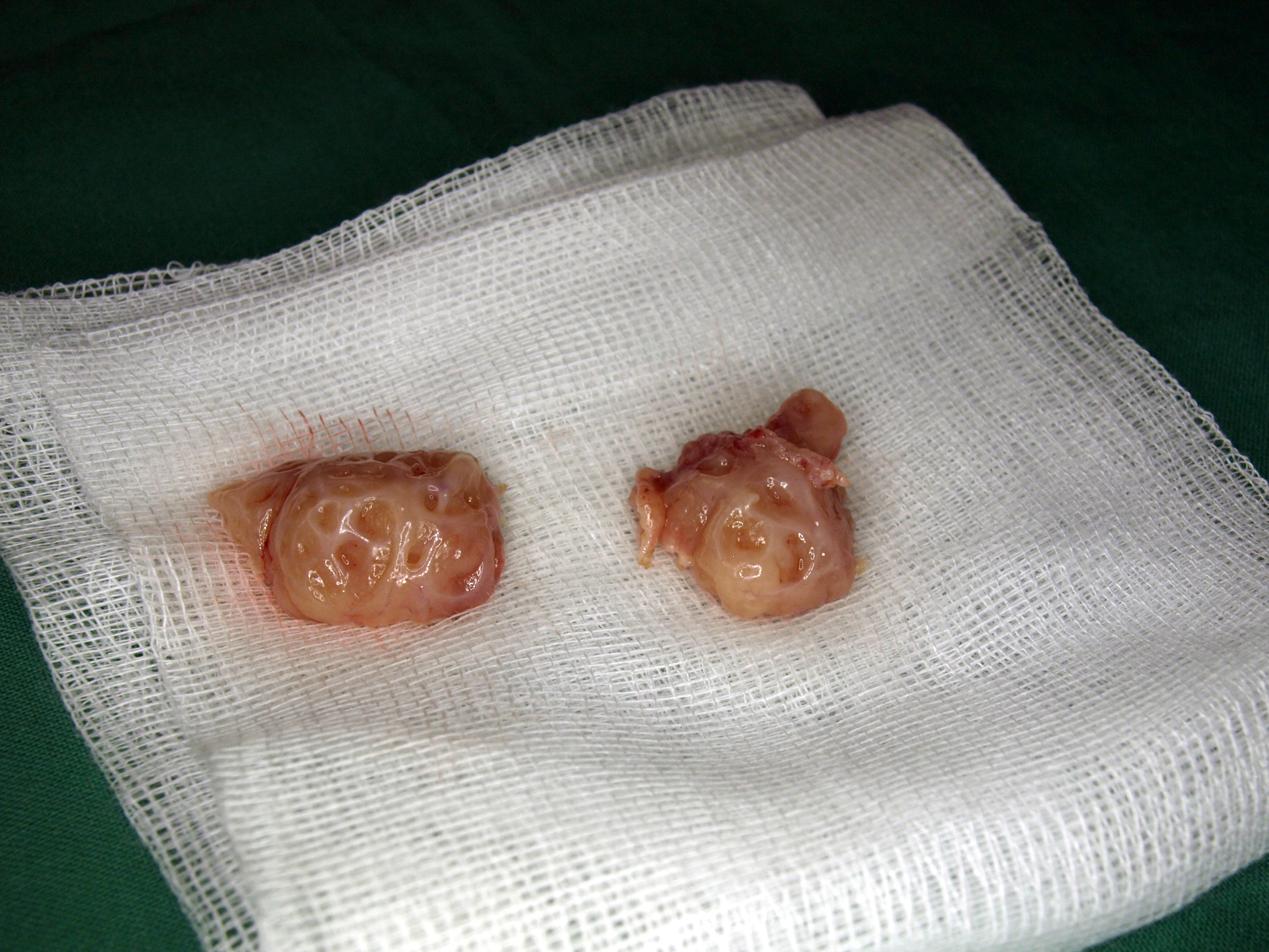 Tonsils after Plasma Coblaion Tonsillectomy.